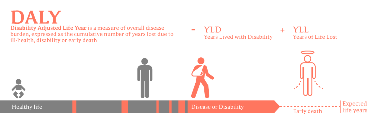 Infographic for DALY Disability adjusted life year